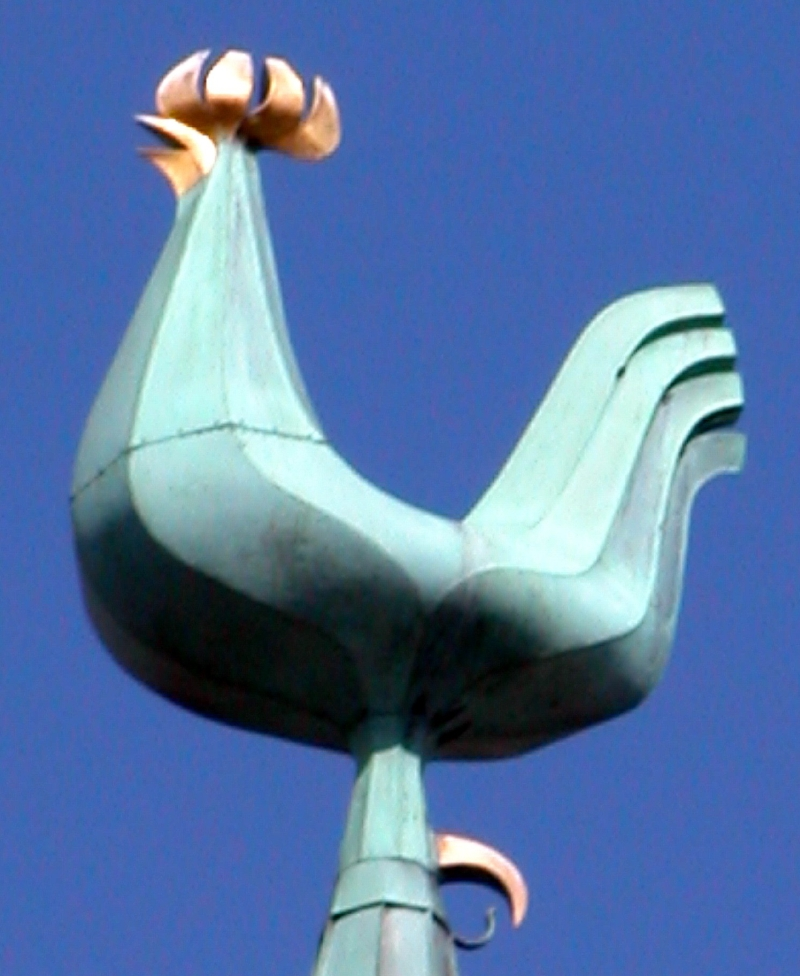 Brunswick, Germany: Cock on St. Peter’s Church by Bodo Kampmann.